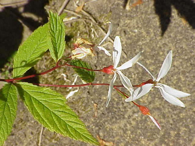 Species: Gillenia trifoliata Family: Rosaceae Image No. 1